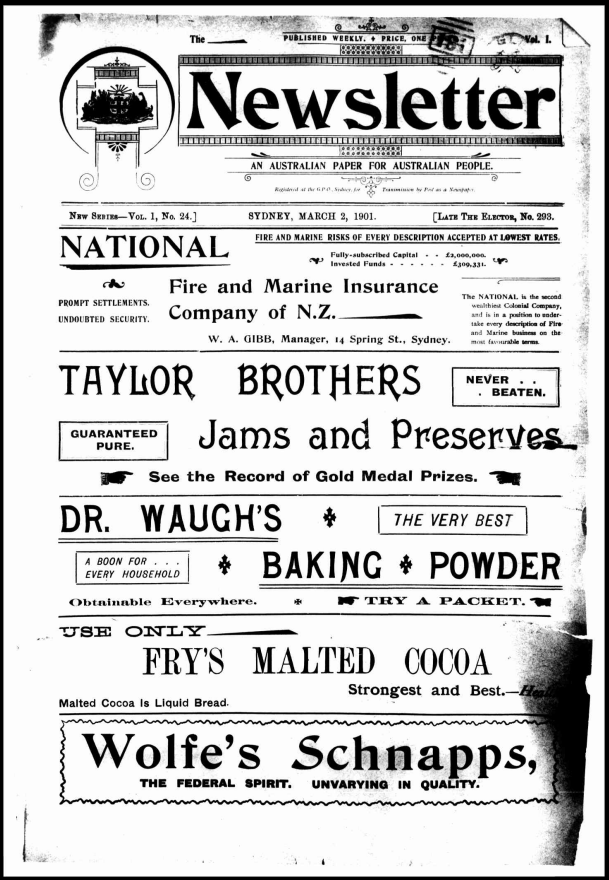 The front page of the Newsletter: an Australian Paper for Australian People on 2 March 1901